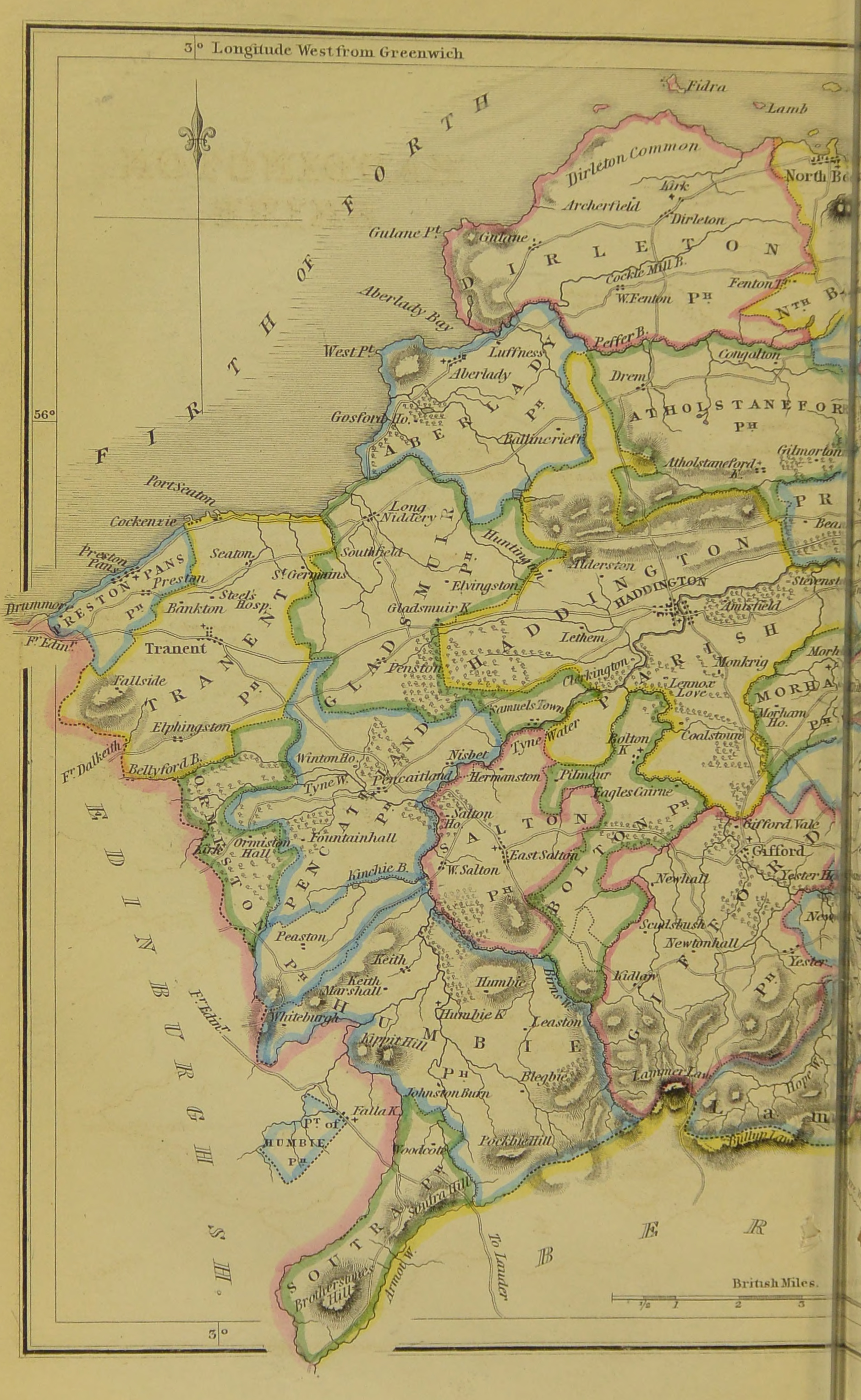 left hand map of Haddingtonshire